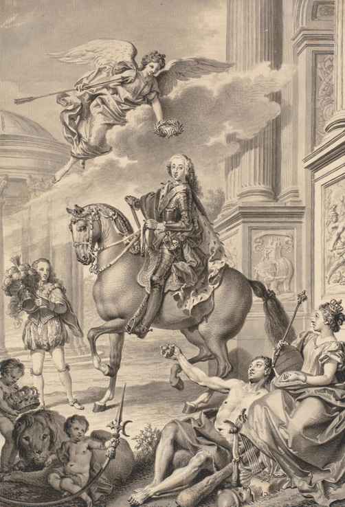 King Frederick V is hailed by Denmark and Norway. Ca. 1748. Pen, black ink, brush, and grey wash. 231x159 mm. The Royal Collection of Graphic Art.